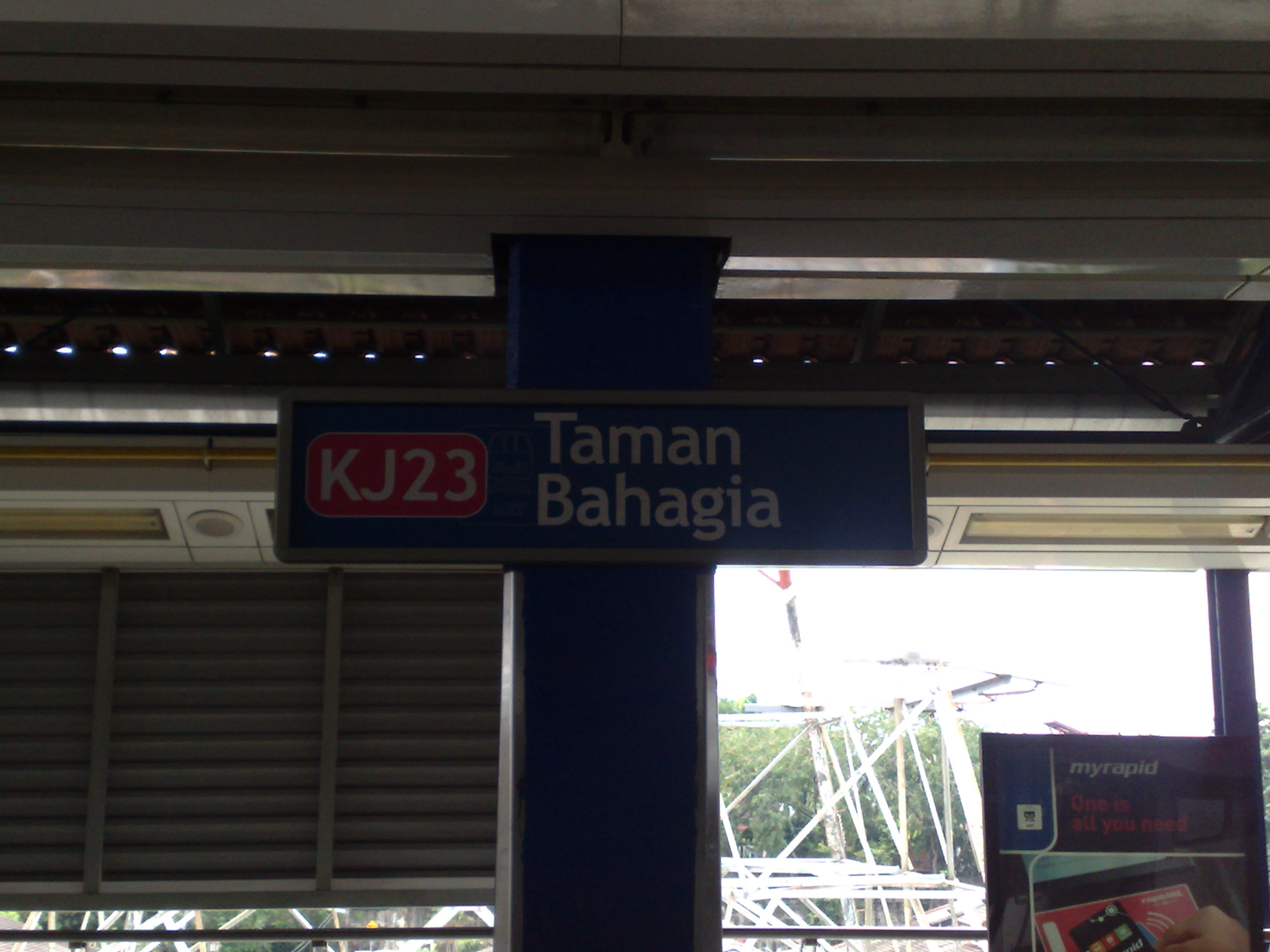 Taman Bahagia LRT